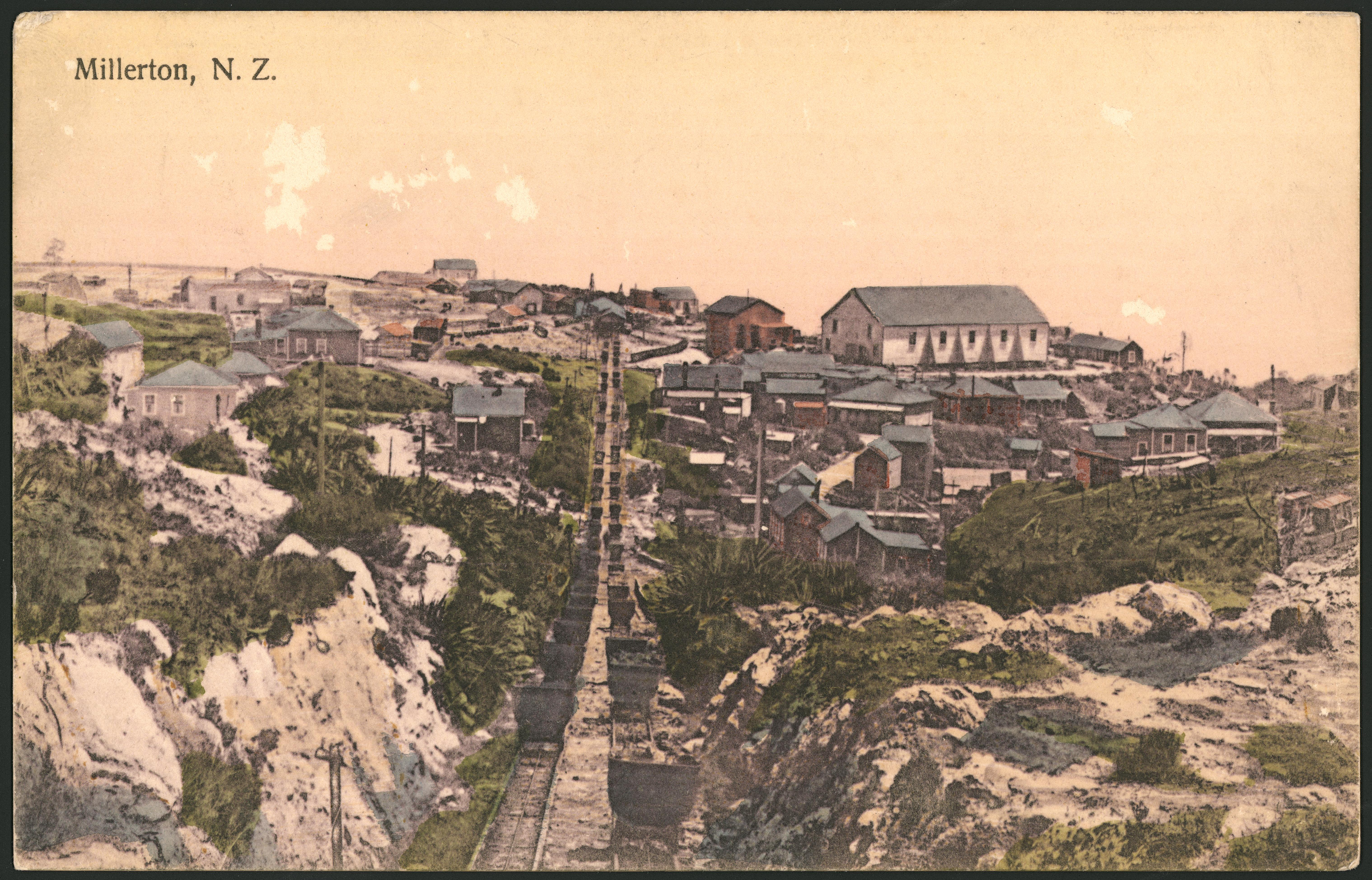 Photograph on postcard shows a general view of the mining town of Millerton, with a view along the Millerton Incline rail track carrying coal trucks. There is a large hall in the right background. Quantity: 1 colour photo-mechanical print(s). Physical Description: Colour photolithograph on postcard, 89 x 139 mm. G Parkhouse (Firm). G Parkhouse (Firm, Westport) :Millerton, N.Z. New Zealand post card, issued by G Parkhouse, Westport. Phototyped in Saxony [ca 1910]. [Postcards of the Wesport and Buller area, collected by William Robert Jones. 1900-1970s]. Ref: Eph-A-POSTCARDS-Jones-03. Alexander Turnbull Library, Wellington, New Zealand.